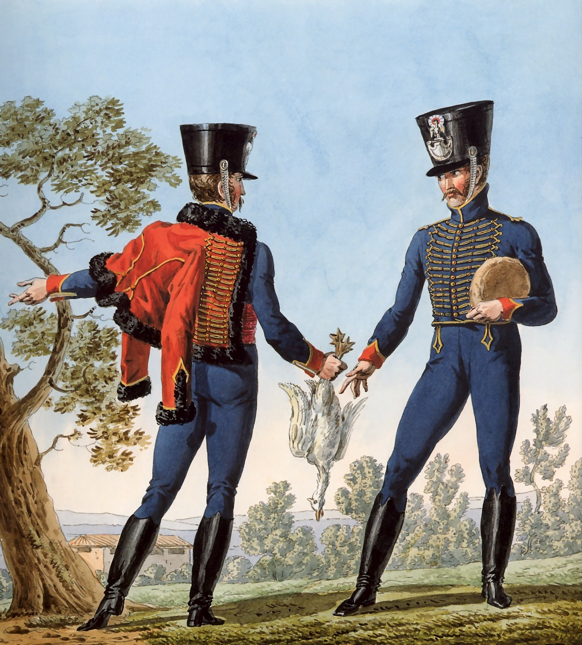 Part of a series chronicling the uniforms of Napoleon's Grande Armée.